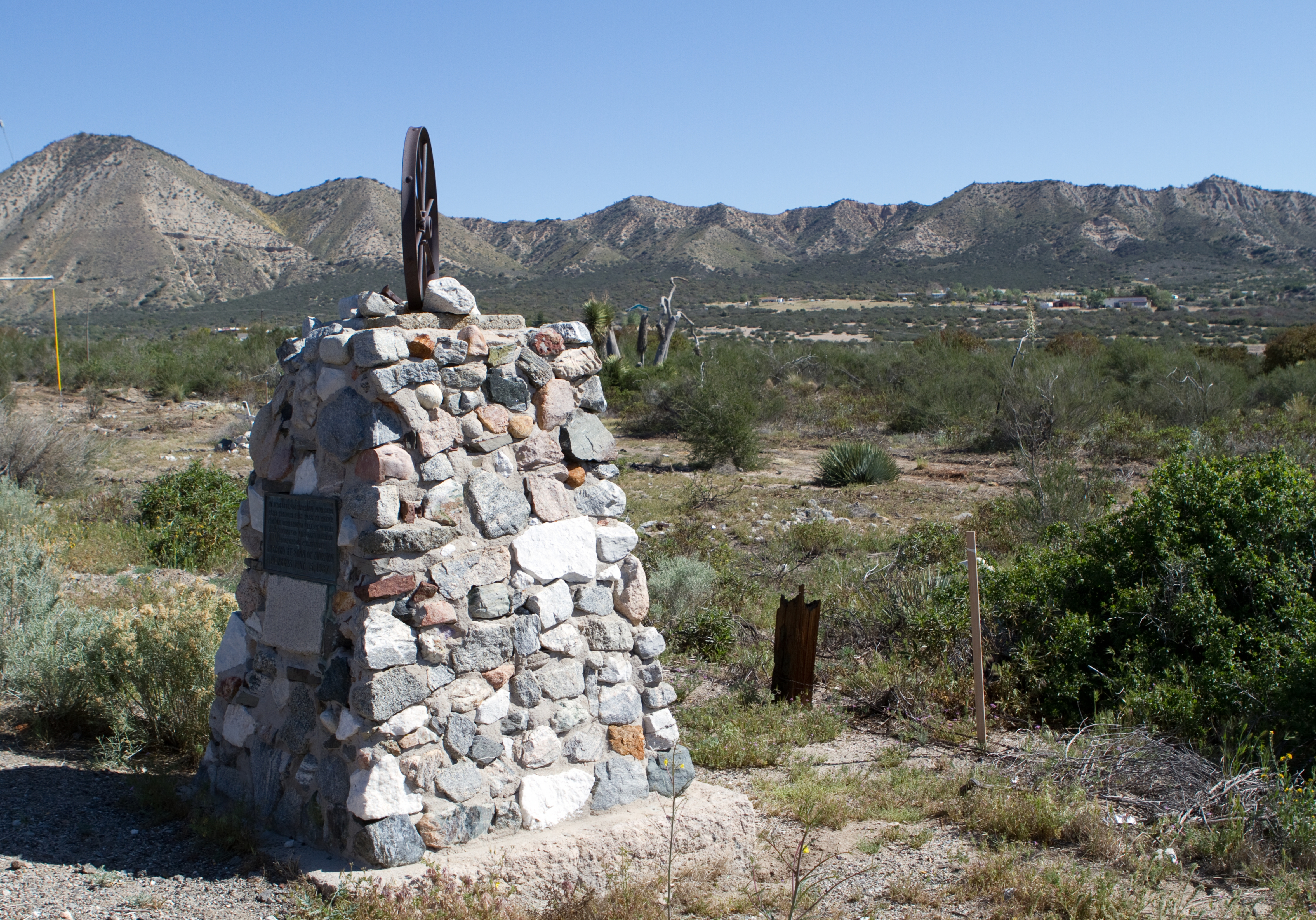 Mormon Trail Monument, W Cajon Canyon, State Hwy 138, San Bernardino, CA.